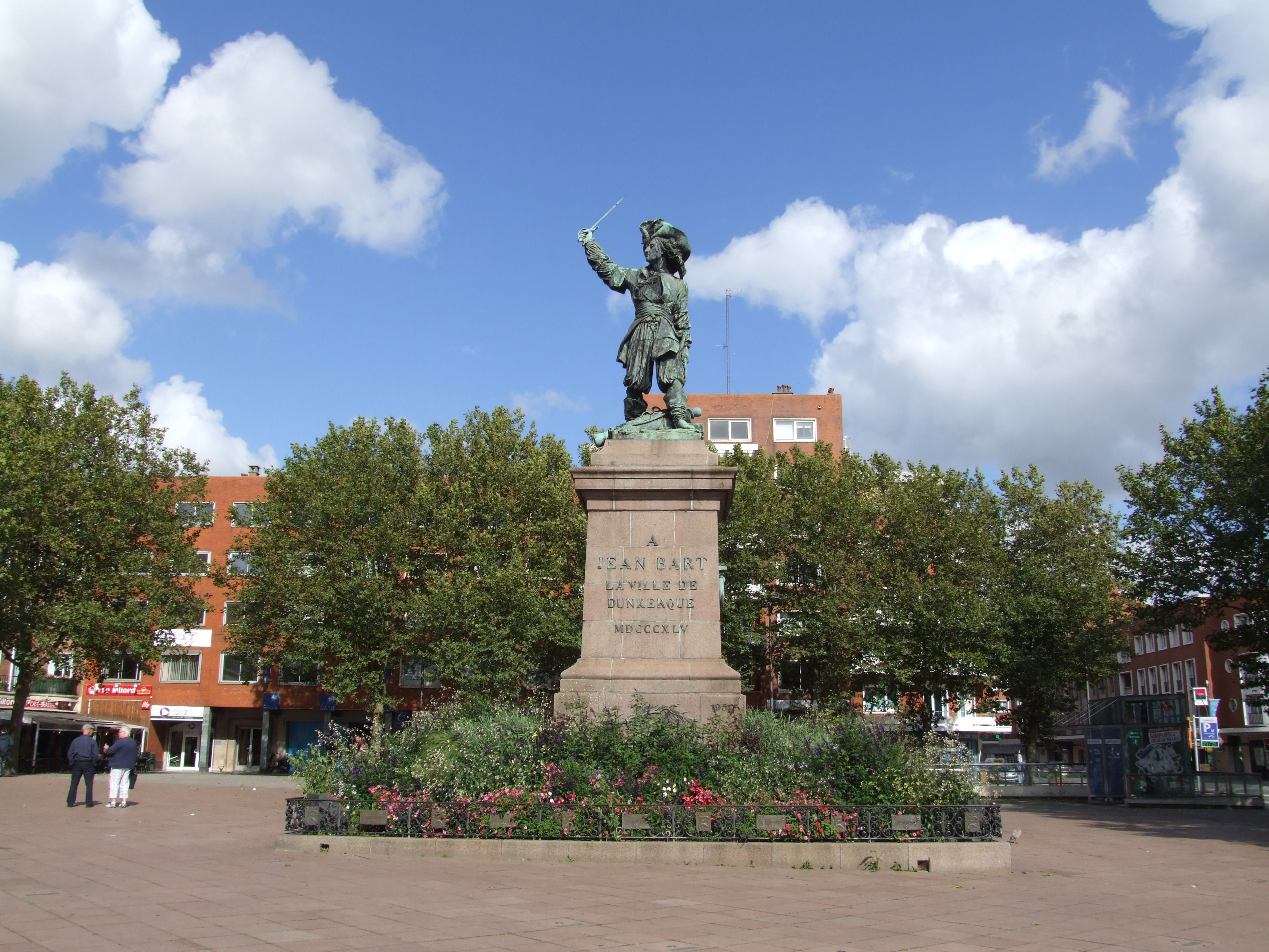 Statue of Jean Bart on the Place Jean Bart in the center of Dunkerque. France - David d'Angers 1845